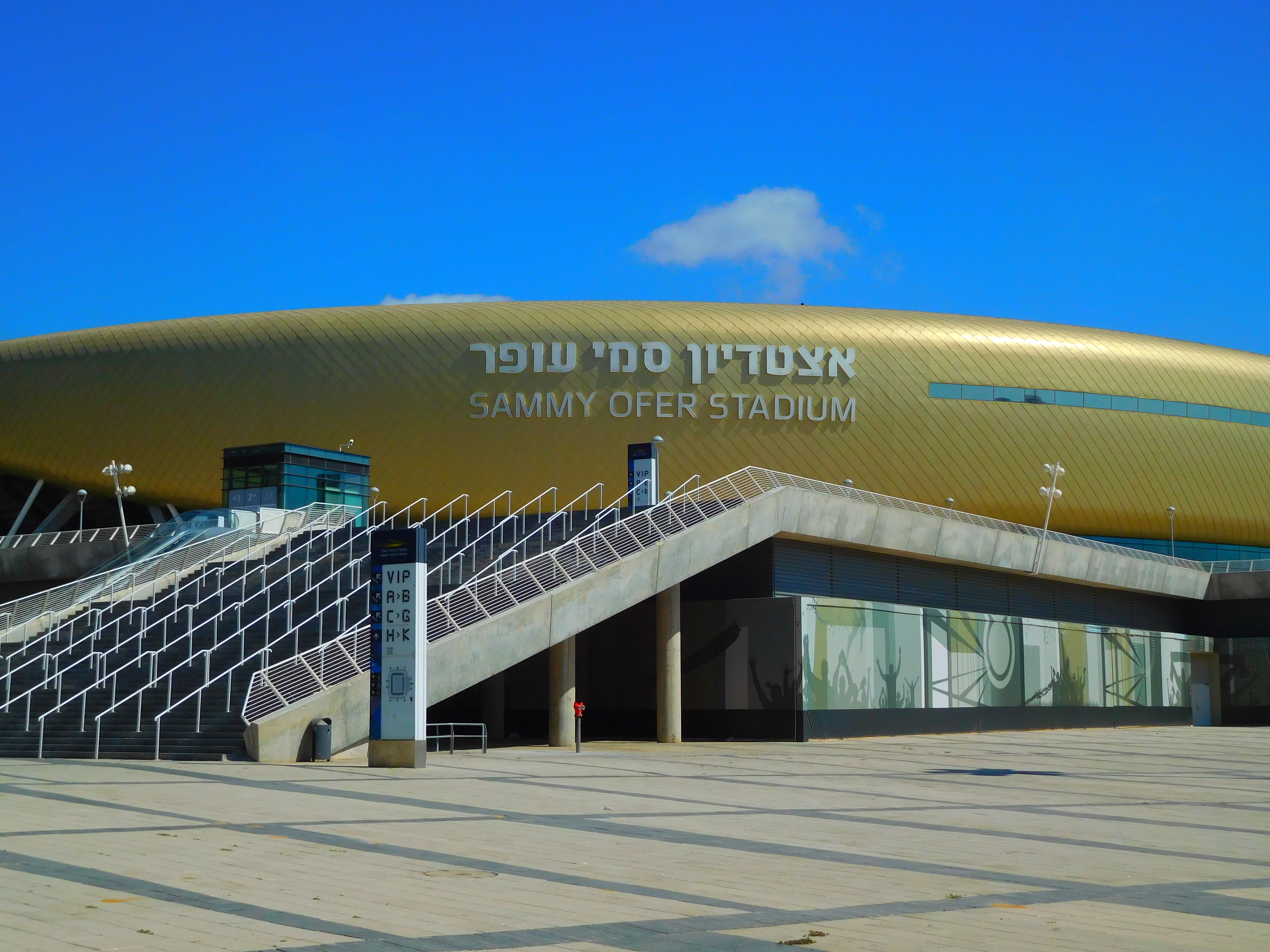 רחבת הכניסה לאצטדיון